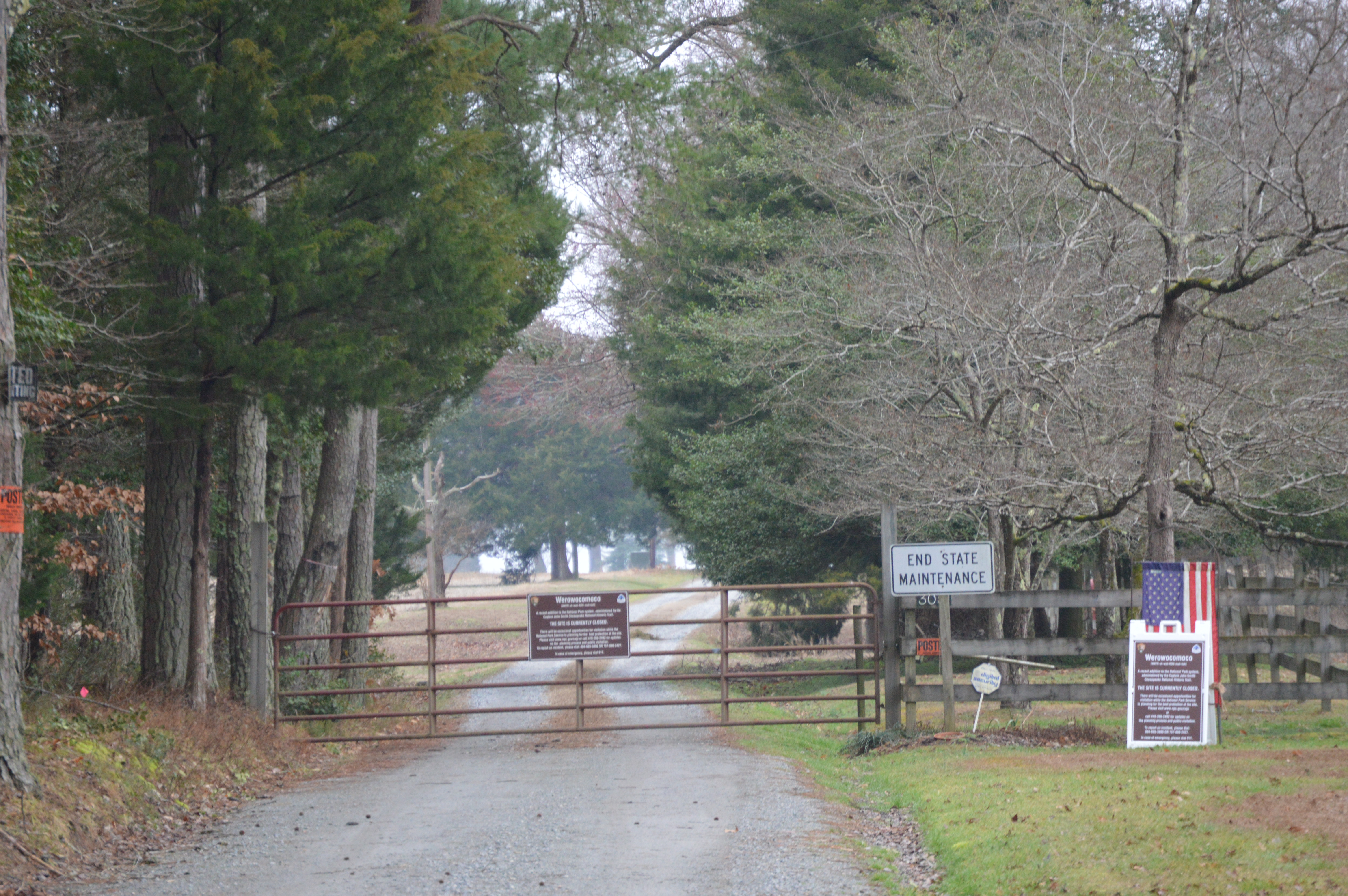 Looking down the driveway toward the site of Werowocomoco, located at the end of Ginny Hill Road west of Gloucester Courthouse in Gloucester County, Virginia, United States. Now owned by the National Park Service, the site is an archaeological site and has been listed on the National Register of Historic Places.